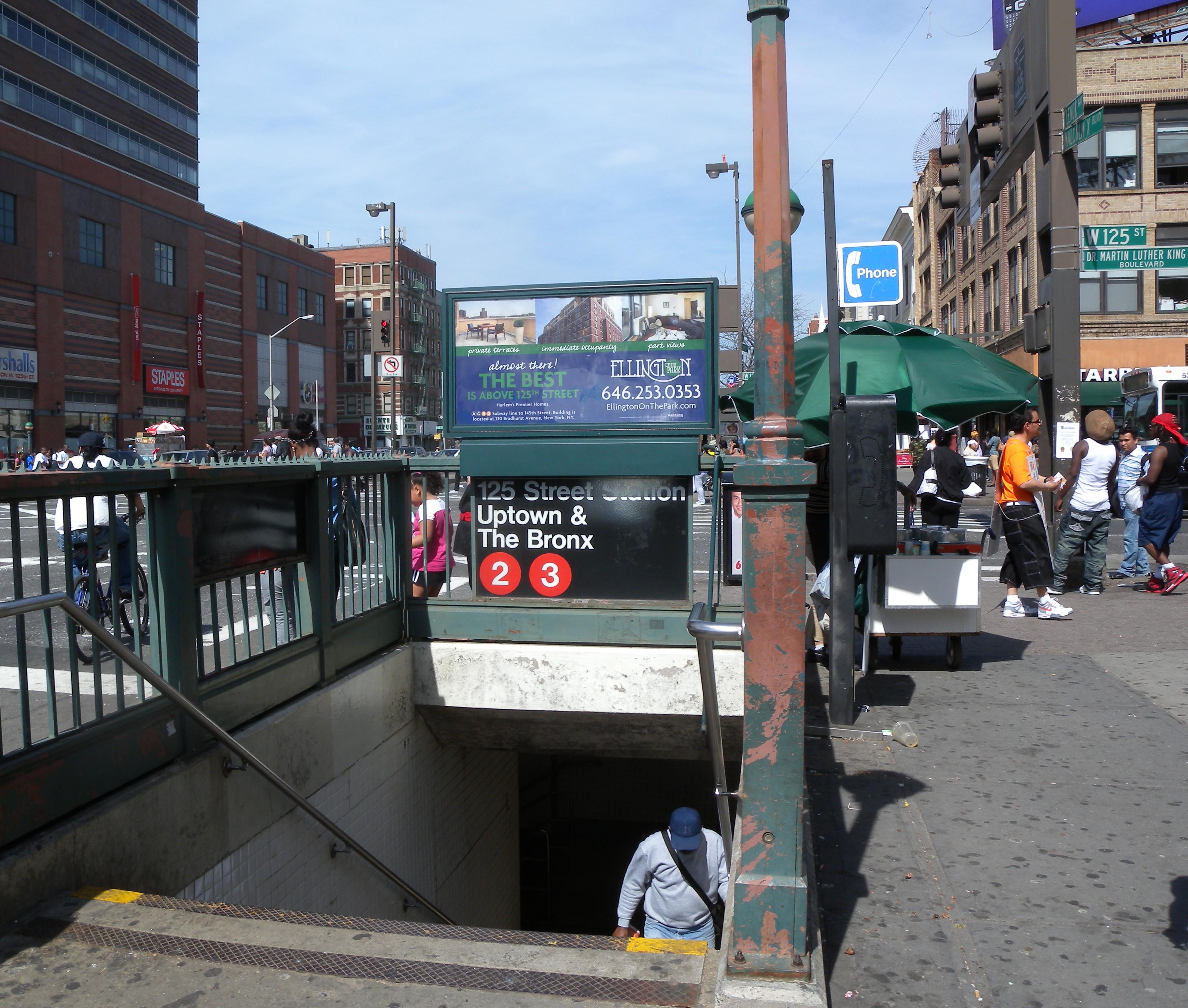 Looking north at eastern stair of en:125th Street (IRT Lenox Avenue Line).